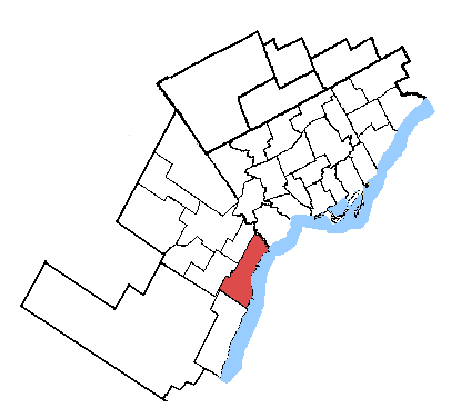 Map of the Mississauga South electoral district. Based on Earl Andrew's maps, created by SimonP.